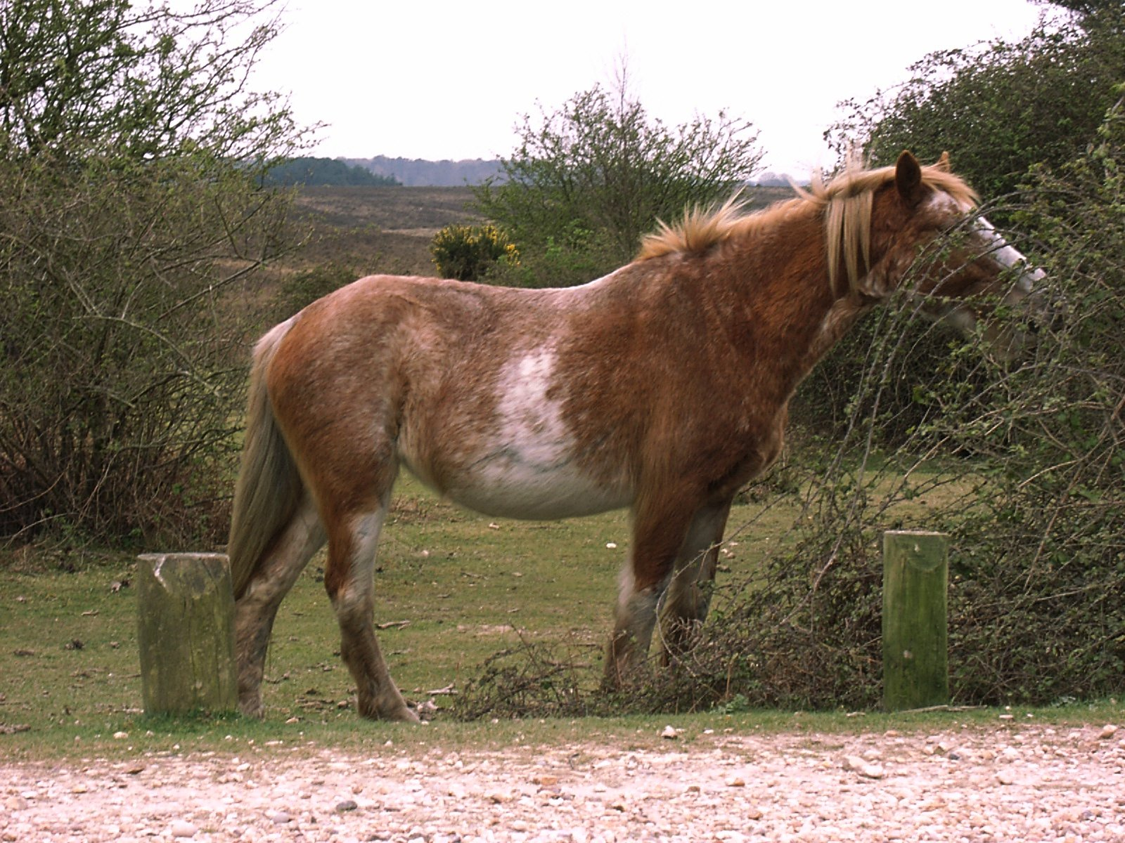 Sabino colored New Forest Pony